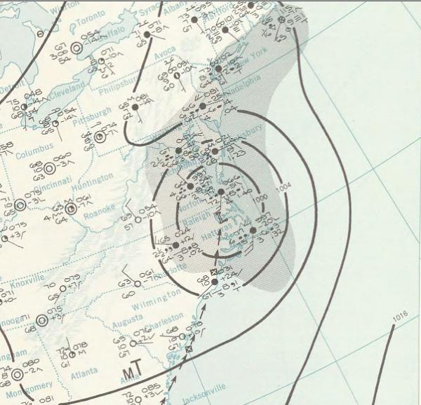 Surface weather analysis of Tropical Storm Brenda on 30 July 1960.